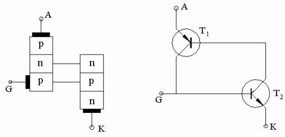 Structure on the physical and electronic level, and the thyristor symbol.